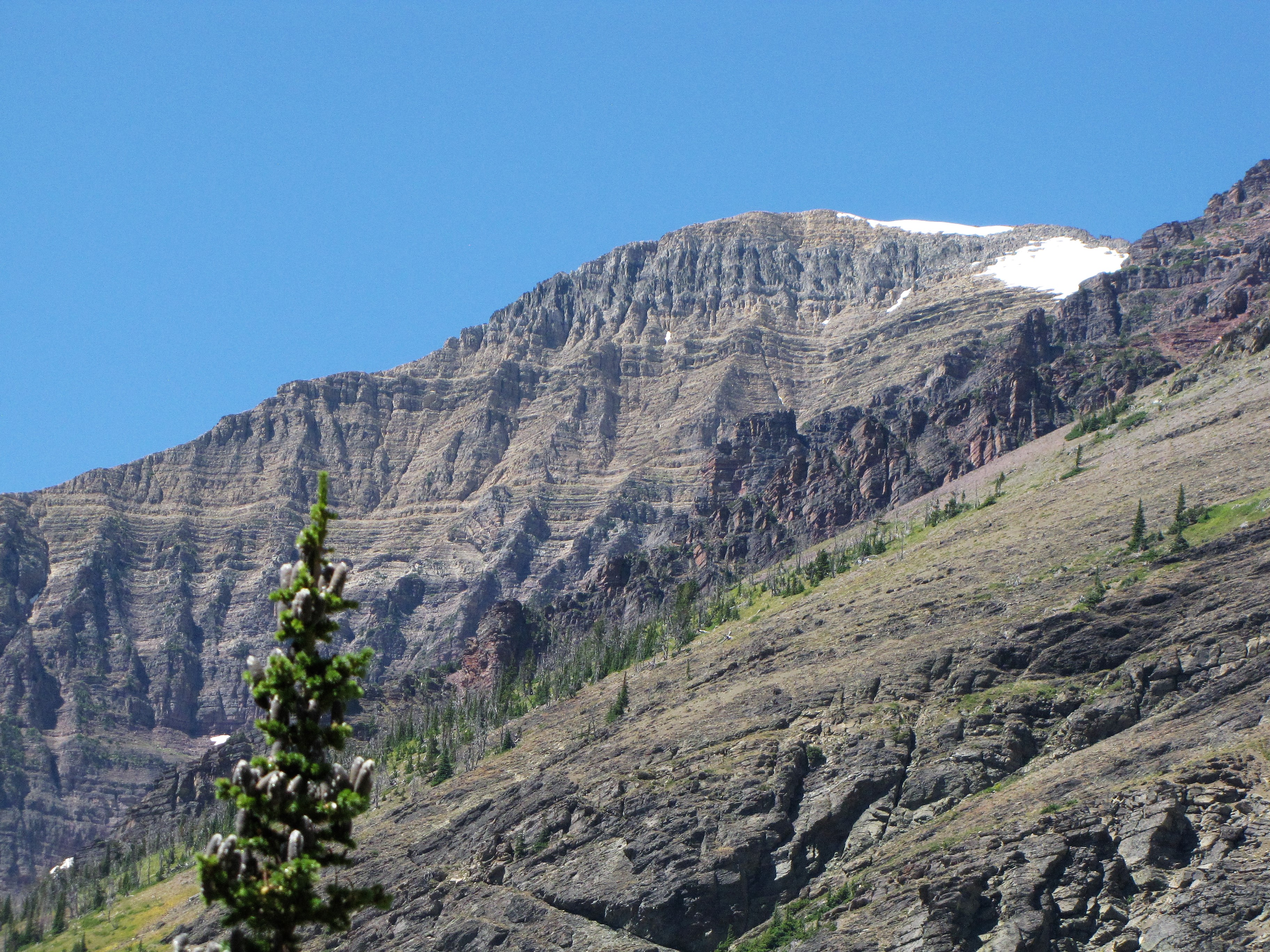 Rising Wolf Mountain in Two Medicine region of Glacier National Park.